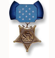 Congressional Medal of Honor Navy/Marines